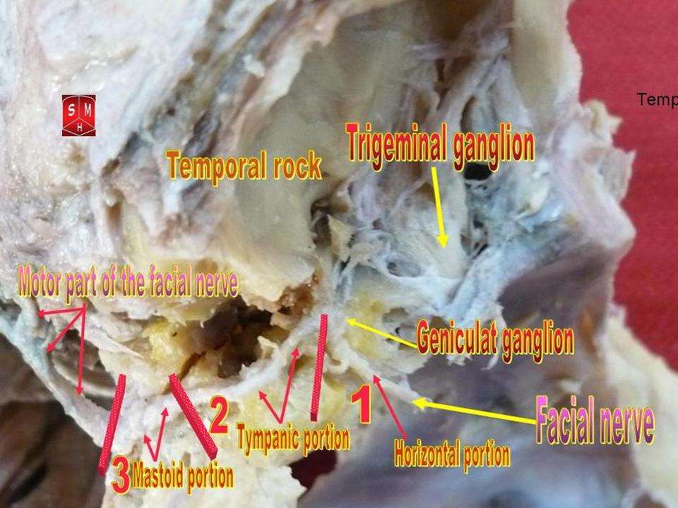 Intrapetrous facial